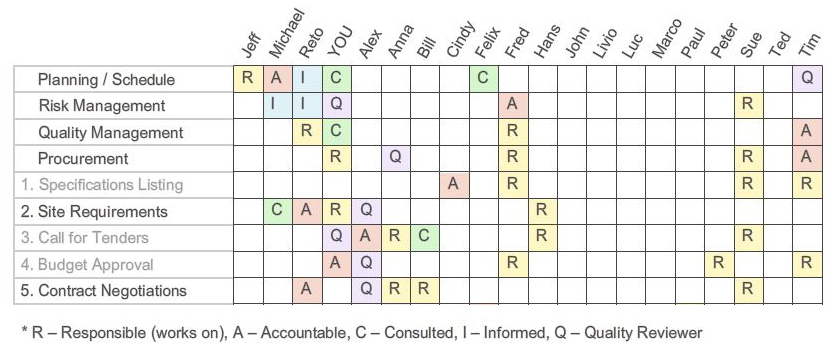 RACIQ Chart - Responsibility Assignment Matrix in Project Management: it includes people who work on an activity (R), accountable (A), consulted (C), informed (I), and Quality Reviewer (Q)